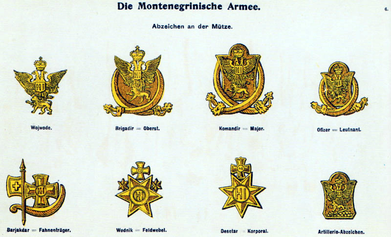 Cap badges of the Montenegrin Army, 1914